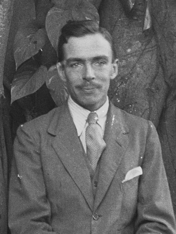 Calcutta, India. Under the banyan tree in Alipore (Calcutta South). Leonard K. Elmhirst.